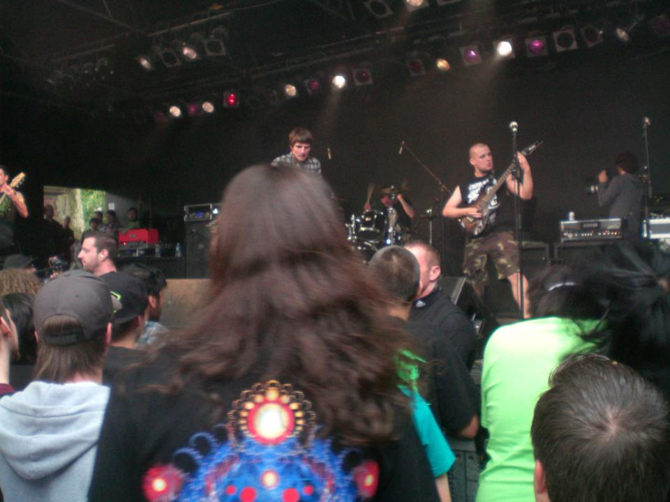 War From a Harlots Mouth (WFAHM) at the Summerblast Festival 2010 in Exhaus, Trier